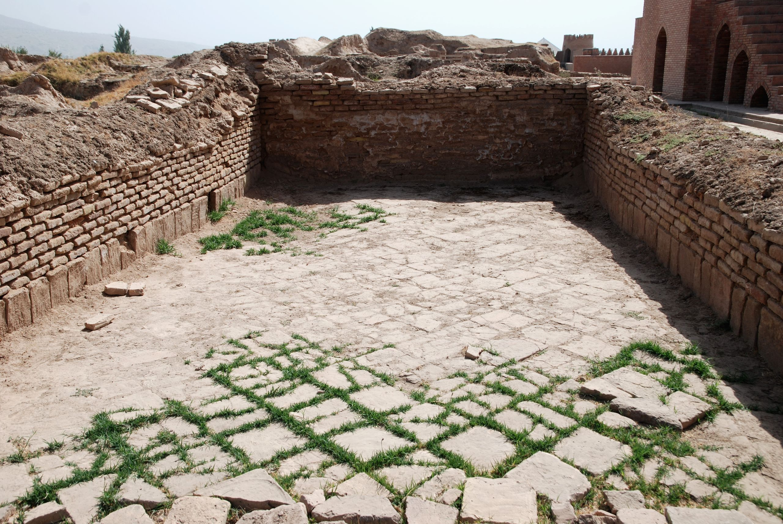 Hulbuk, Khurbon Shahid